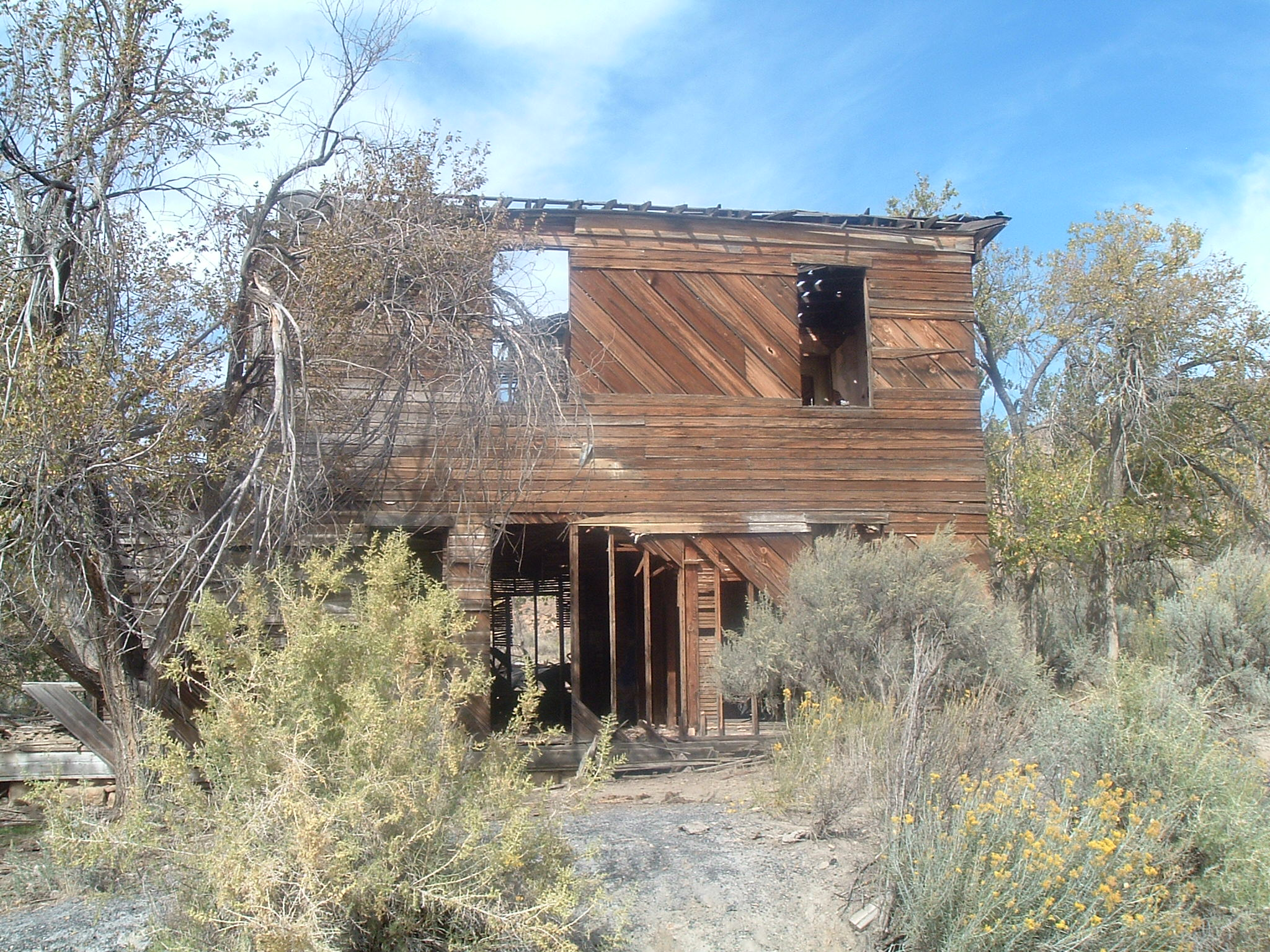 Building in Sego a ghost town near Thompson Springs. Formerly used as a boarding house, this building has collapsed since the photo was taken.